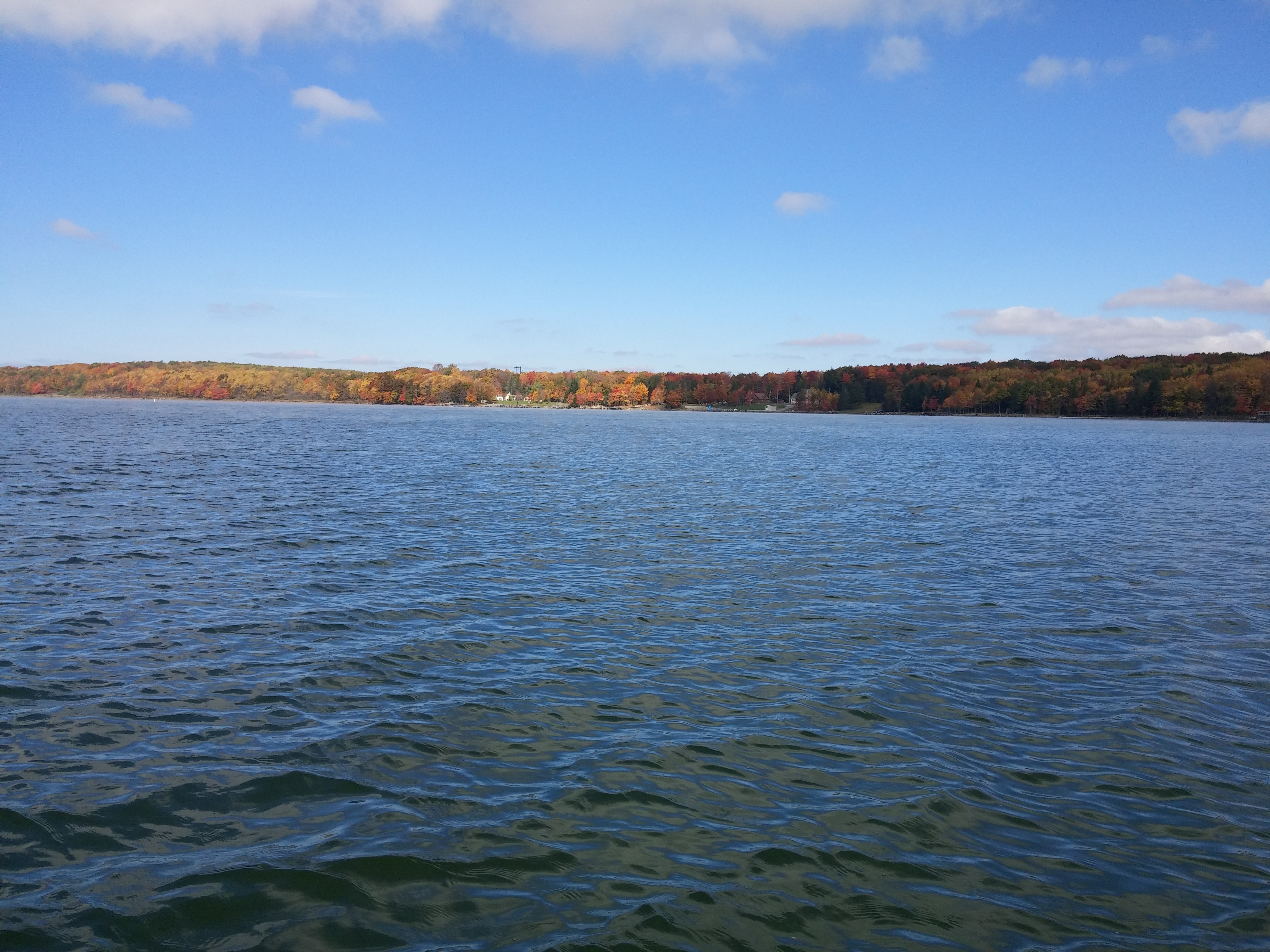 View from the Mount Storm Lake, WV.